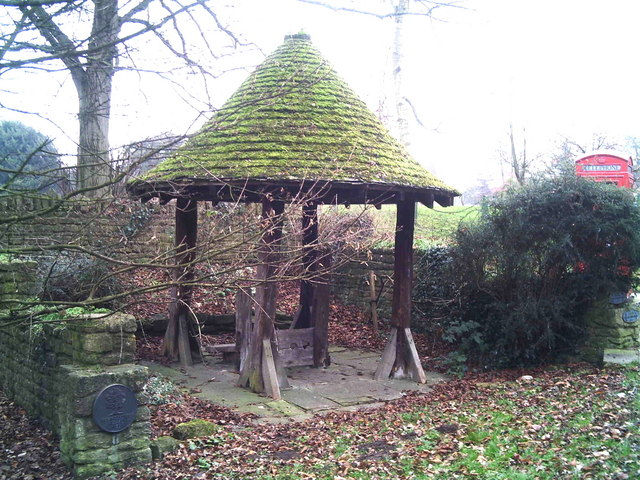 Witham-on-the-Hill stocks Witham-on-the-Hill stocks: an ancient relic of the village's past; the roof preserves what is left of the planks that form the stocks -- legs securely padlocked, when they were in use.